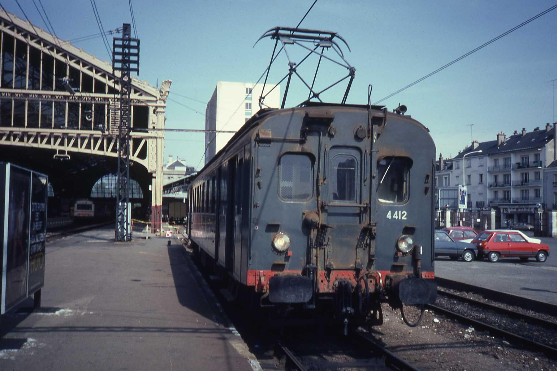 Electric multiple unit Z4412 in Tours station.